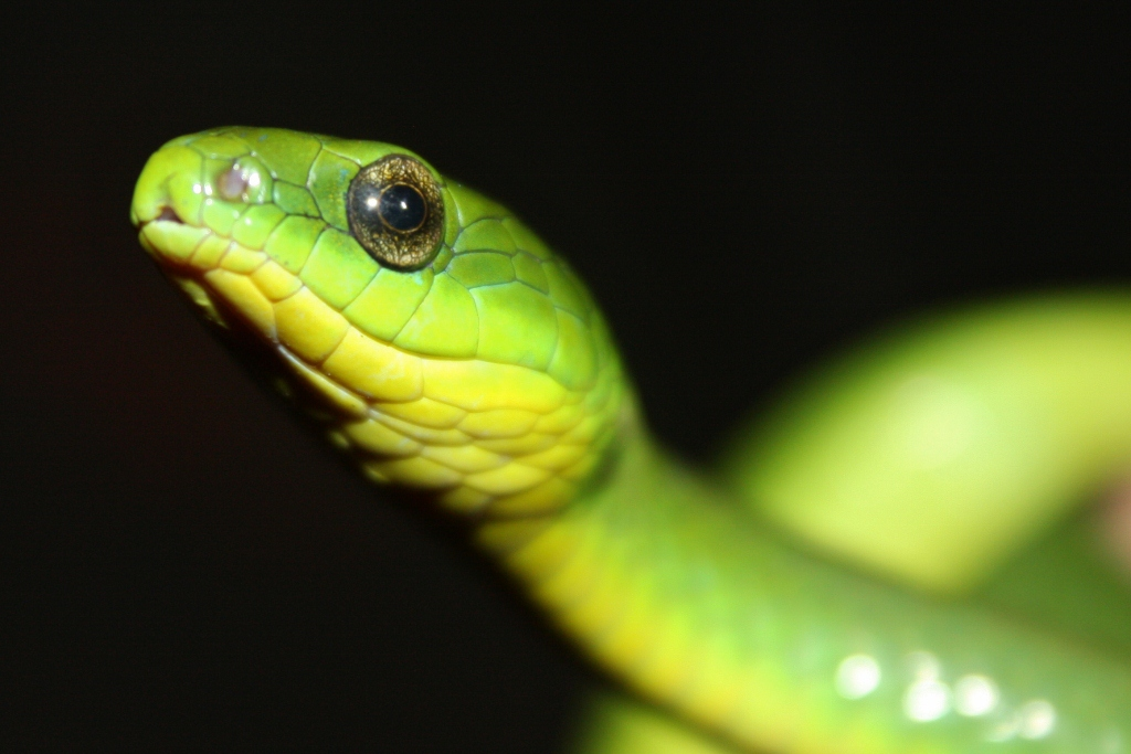 Found inside a water catchment on Lantau.